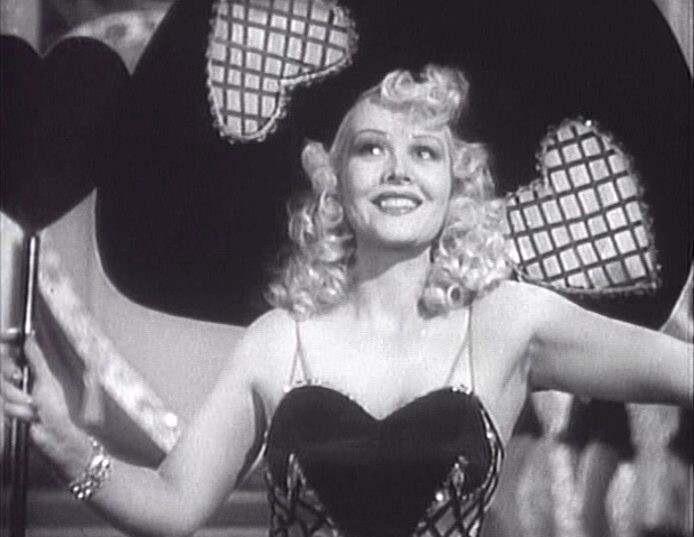 Cropped screenshot of Marion Martin from the film Lady of Burlesque.